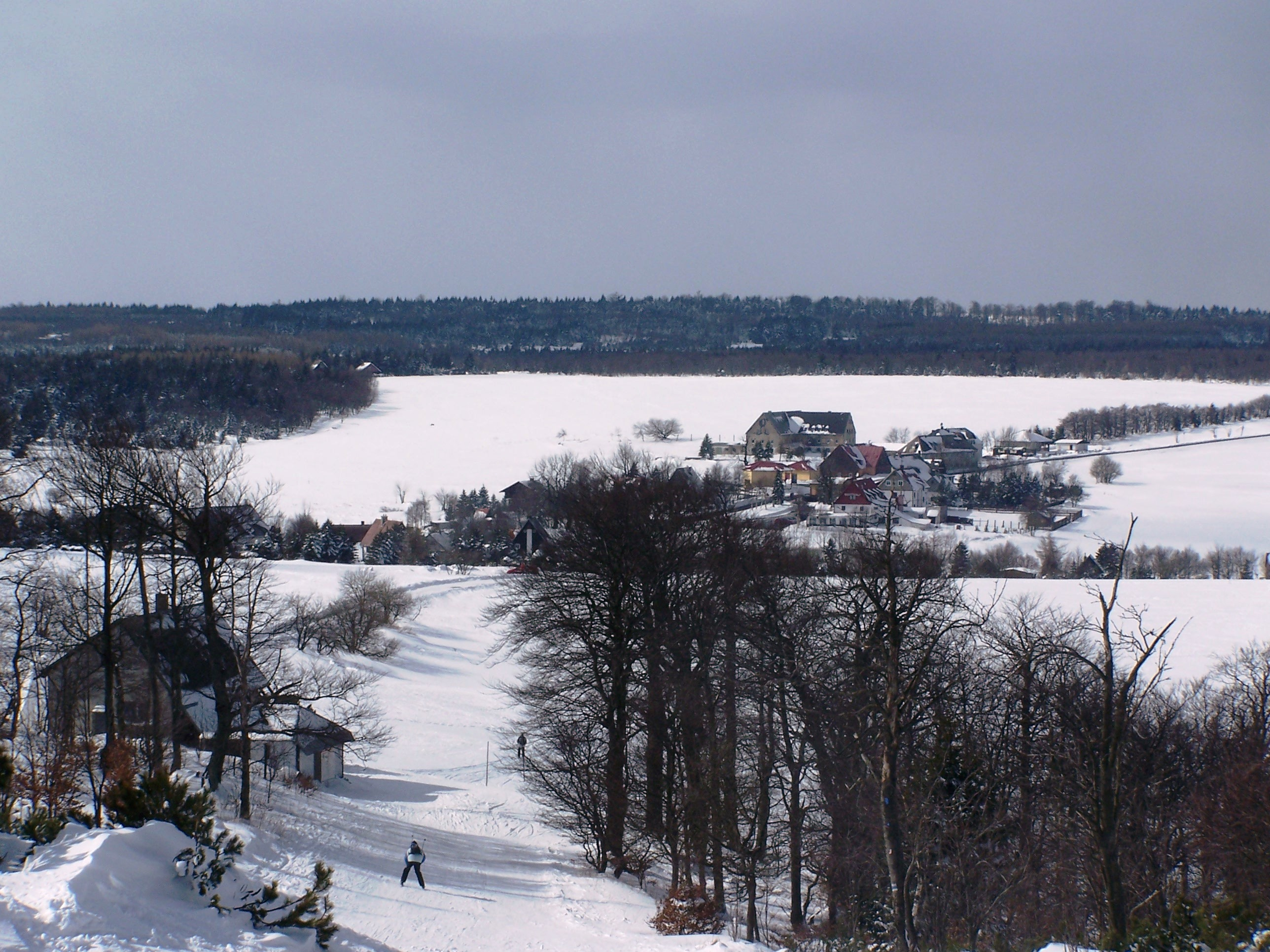 Nové Město close to Moldava in the Ore mountains in the Czech Republic